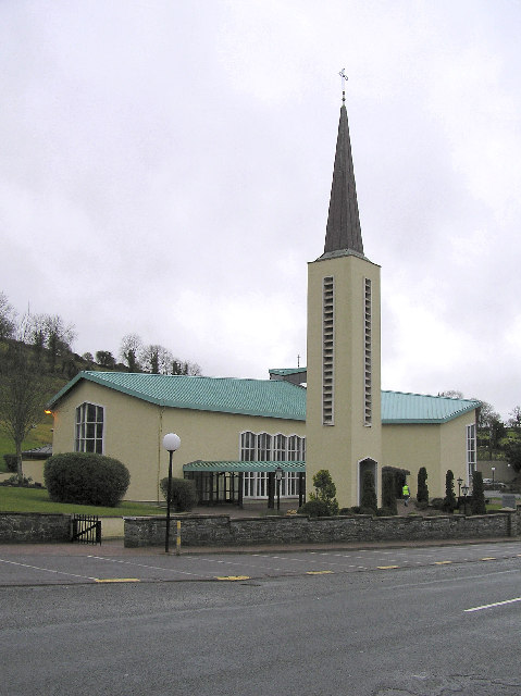 St Patrick's Church, Murlog, County Donegal. It is in the Parish of Clonleigh, and is near Lifford town.